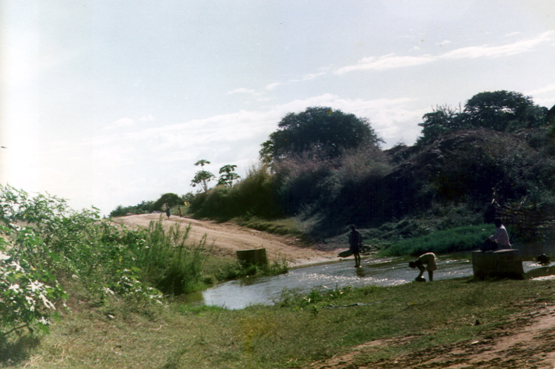 Conreted ford under the mountain Thyolo on the east side of the Elephants Marsh in Malawi